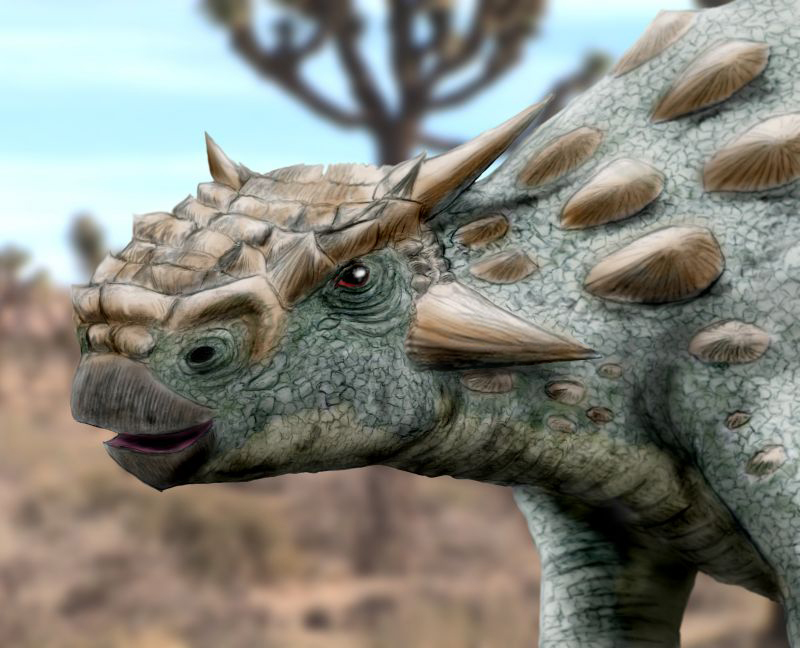 Minotaurasaurus ramachandrani, Late Cretaceous of Gobi desert. Digital.